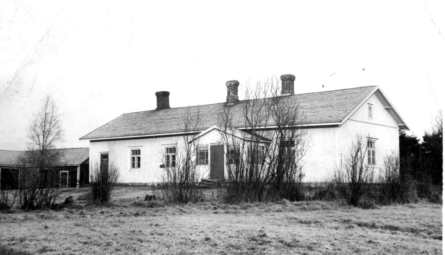 Fallbacka was locater in Tuusula next to the main railway line in between Korso and Savio stations. The farm has been inhabited by family Fallström in several hundred years. In the 21st century, the area is now part of the City of Vantaa and the main building is not in existence anymore. In the same area there are today the Vantaa Steiner school as well as private houses.